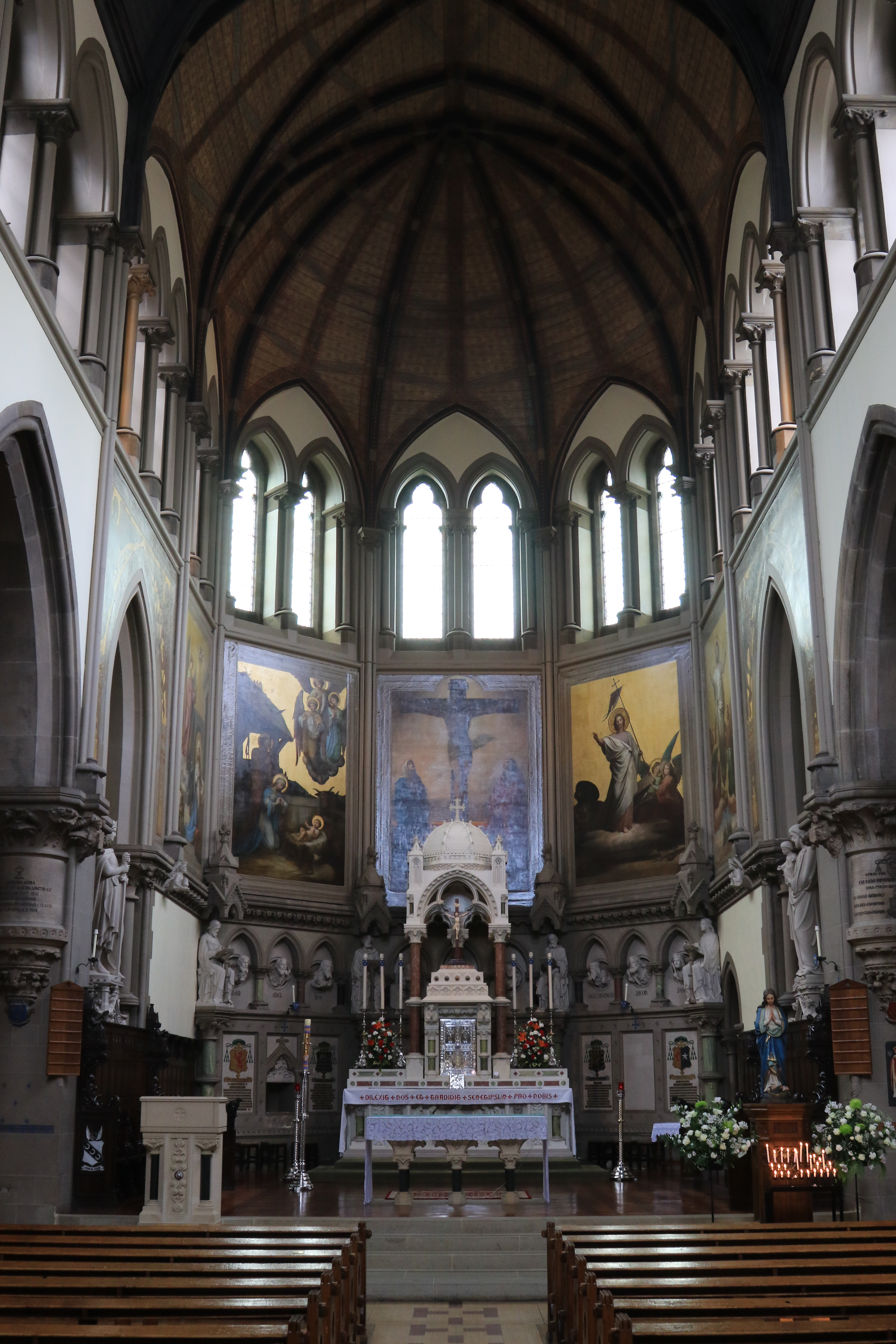 Nave and chancel